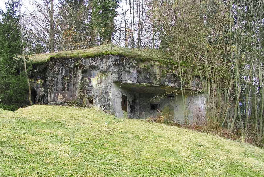 One of the few built infantry casemates of the Rupnik line, inspired by Czechoslovak fortifications. It is located on the southern slope of Poljanska dolina valley, west of Gorenja Vas